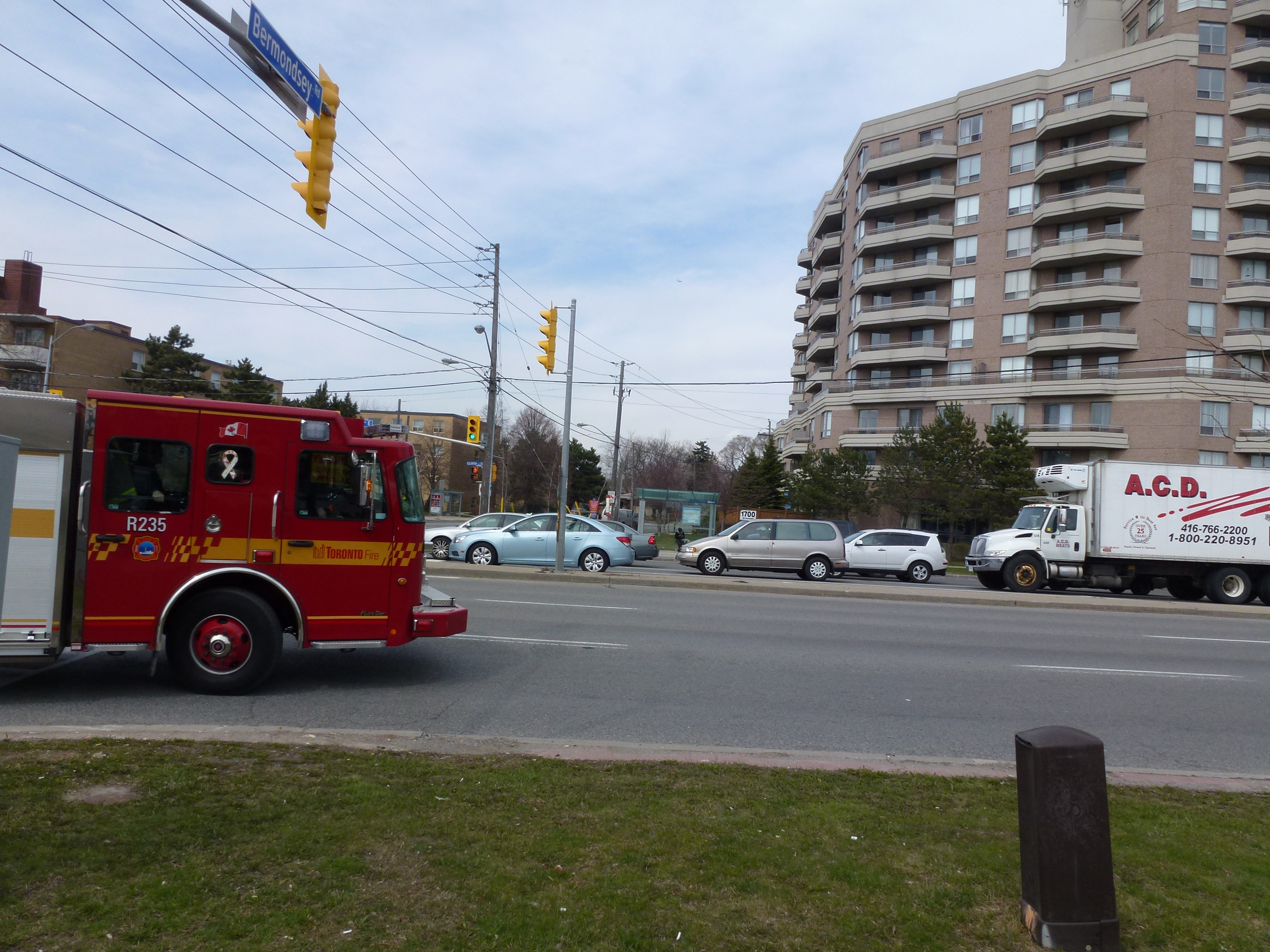 Parts of panoramas of intersections where there will be Eglinton Crosstown LRT stations, GPS embedded, taken 2013 04 25 (233).JPG On April 9, 2013, the day the first tunnel boring machine started to bore the Eglinton Crosstown, I bought a TTC day pass and got off to take "before" pictures of the site of every future underground station between Mount Dennis and Yonge Street. On April 25 I took "before" photos of the future sites of stations east of Yonge I plan to return for "after" pictures when the Crosstown opens in 2020. This photo was taken near the future site of the Bermondsey LRT station.